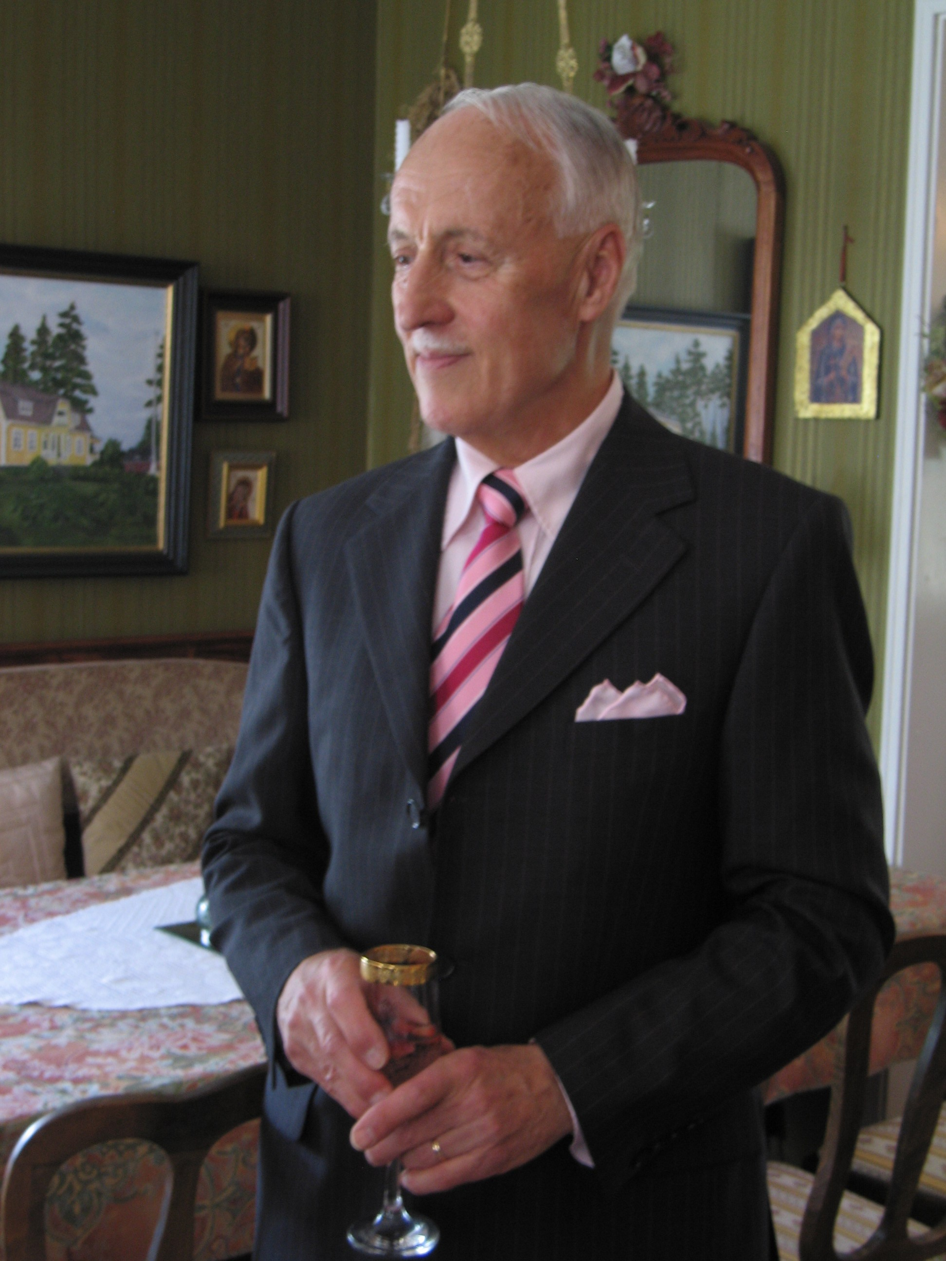 Jouko Halmekoski on his 70th birthday.